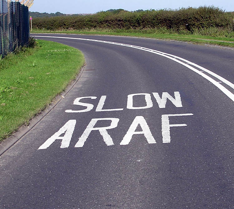 Welsh road markings seen near Cardiff Airport, Wales.